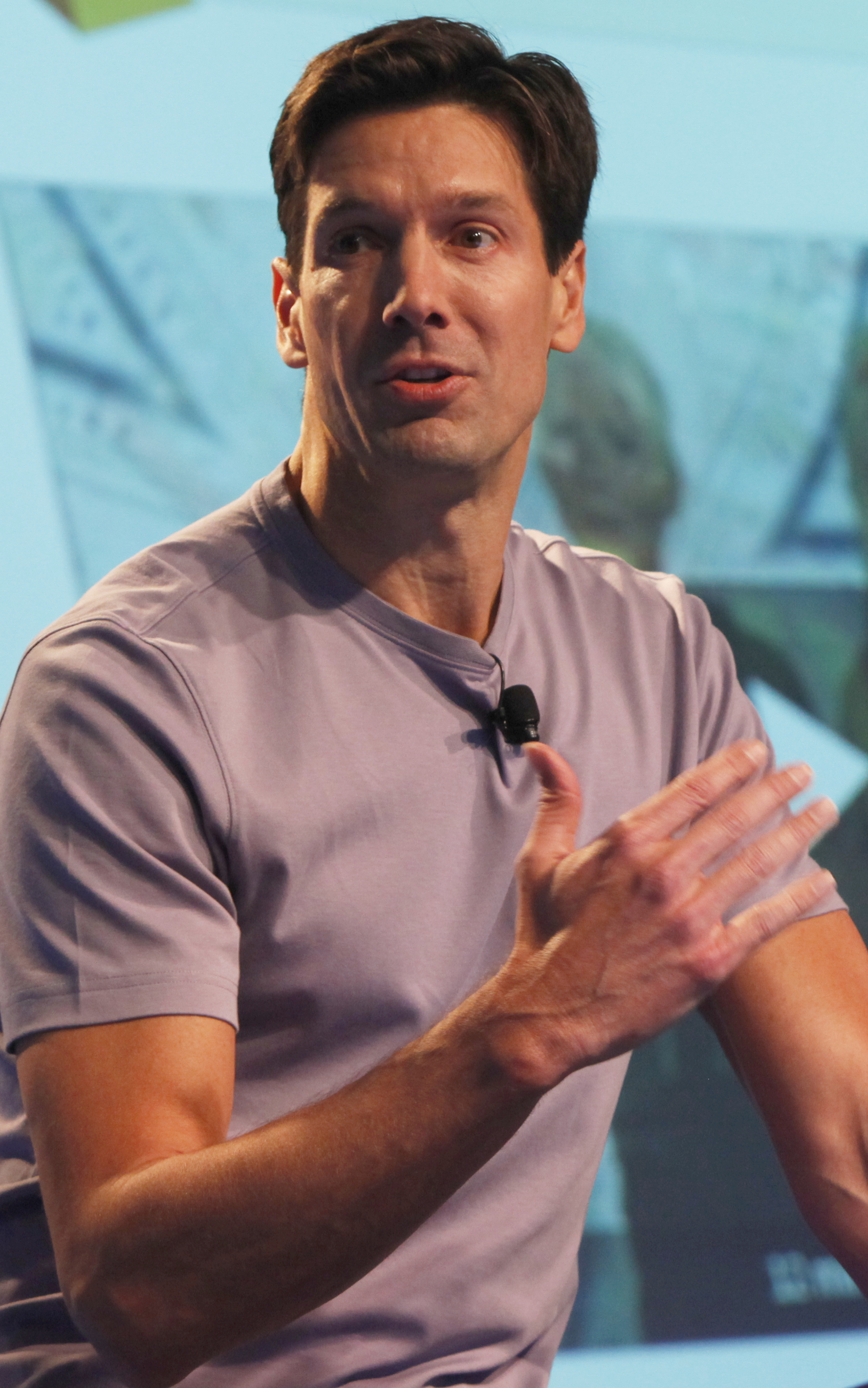 Mark Russinovich keynotes at PDC10